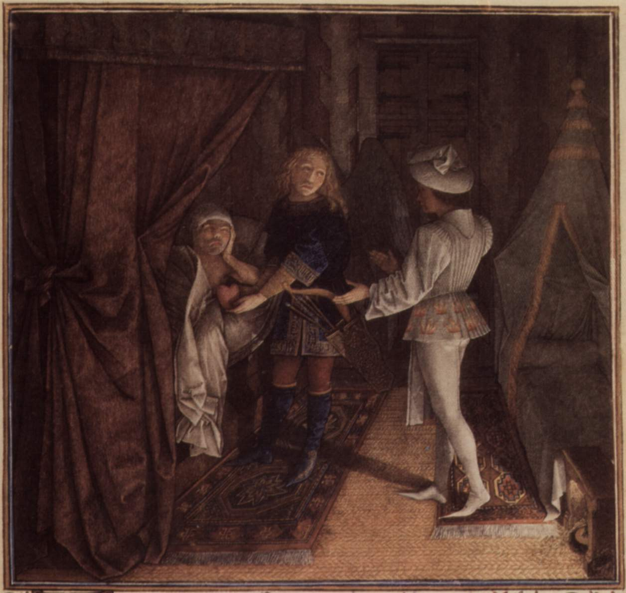 An illustration from the Livre du Coeur d'Amours espris de R. D'Anjou